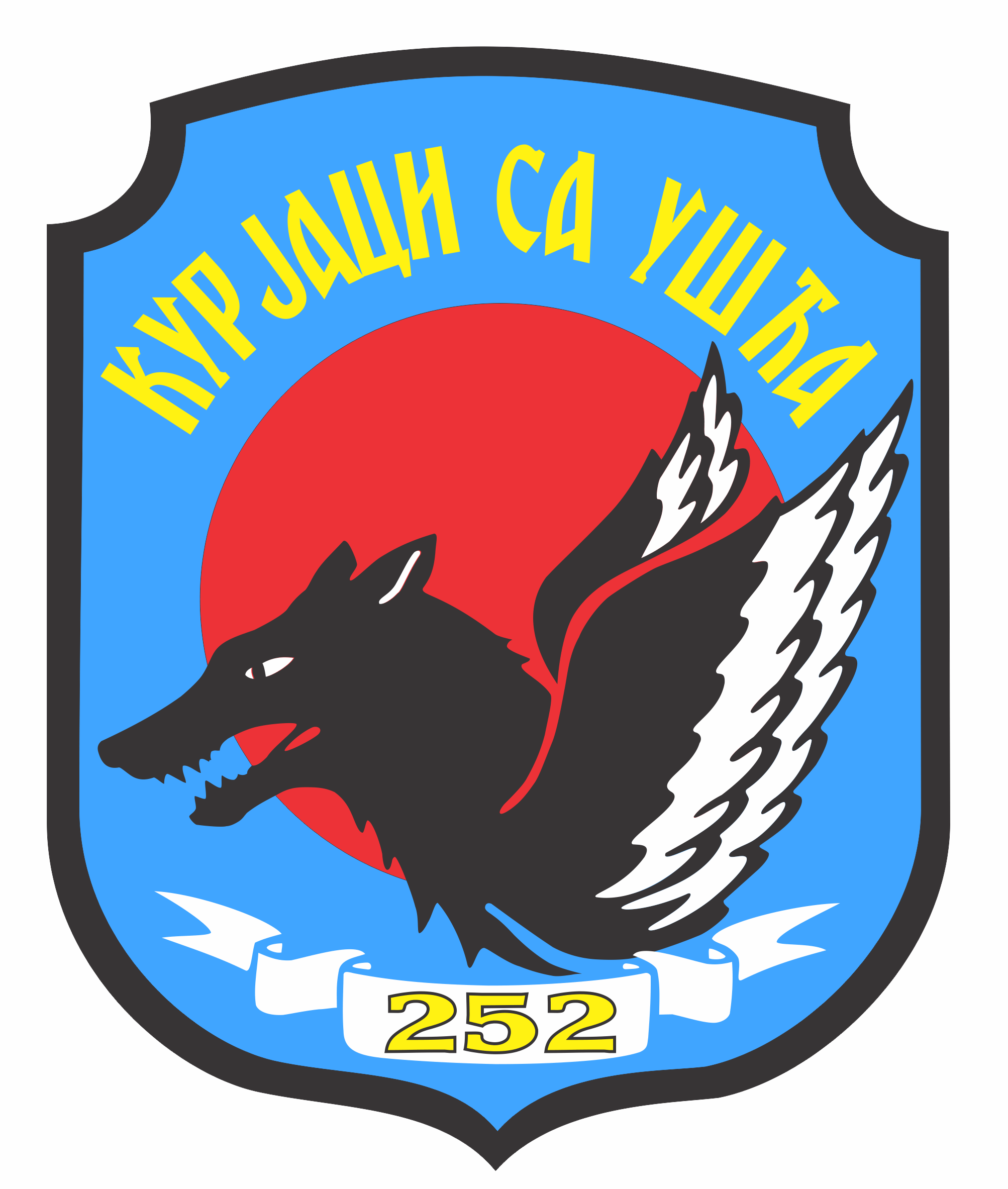 original patch of 252nd training squadron